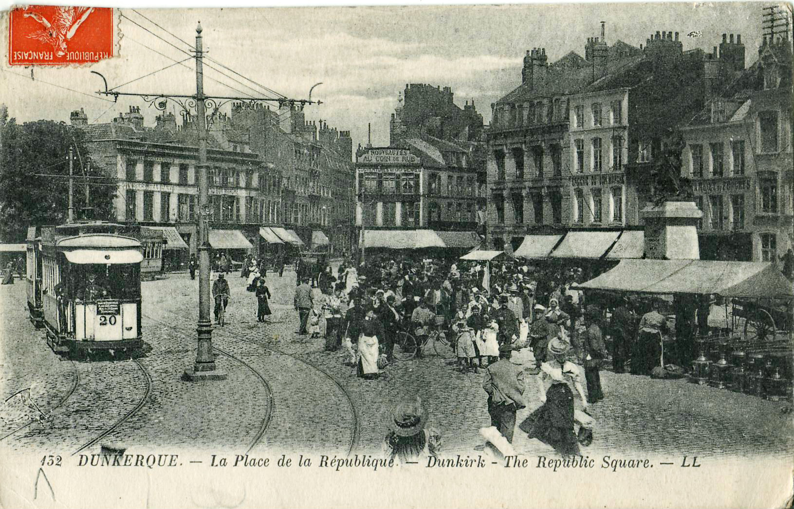 Carte postale ancienne éditée par LL, n°132 :DUNKERQUE - La Place de la République.Vue de la motrice n°20 du tramway de Dunkerque circulant le long du marché